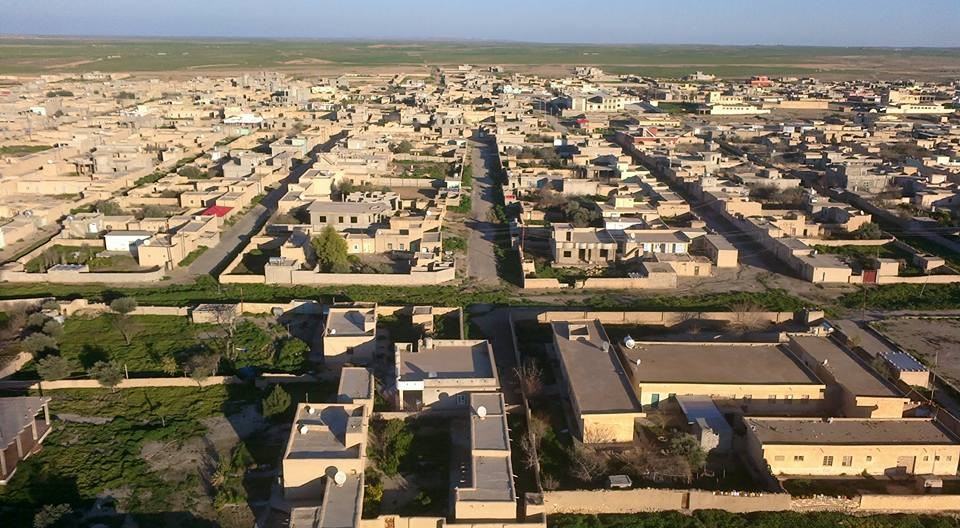 gohbal sinjar 2015